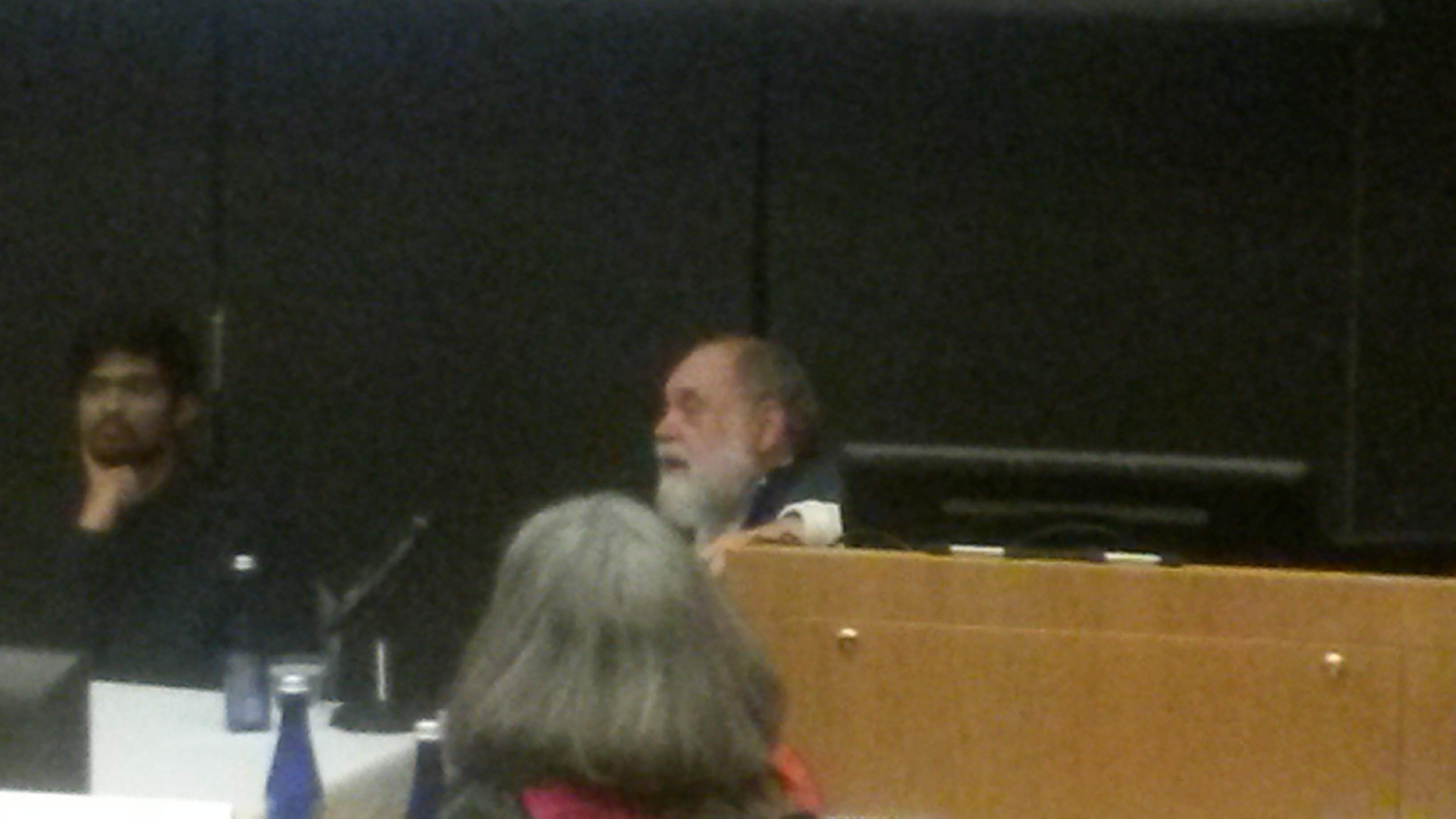 Richard A. Cash